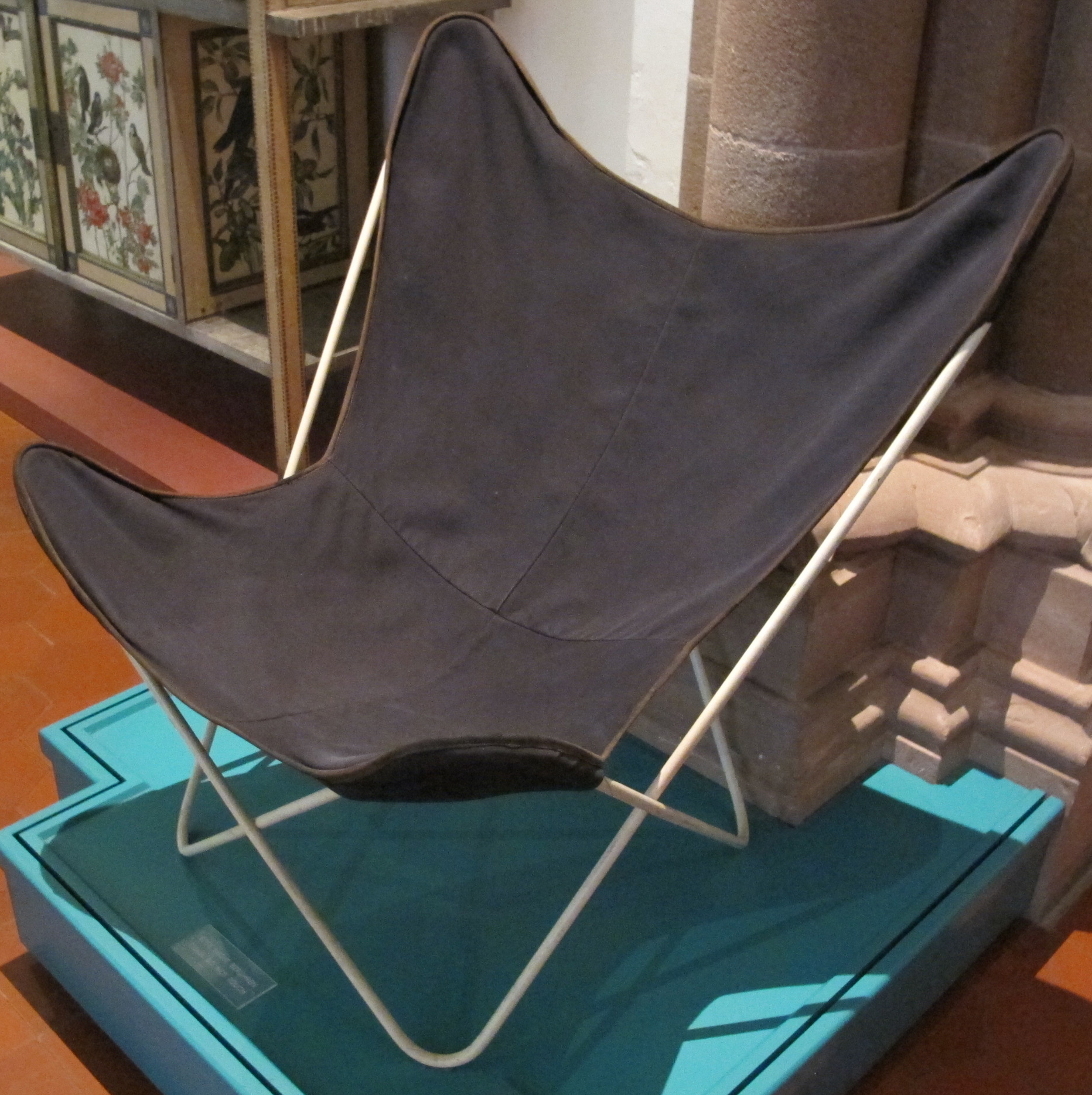 Antonio Bonet, Juan Kurchan and Jorge Ferrari Hardoy: B.K.F. Chair commonly referred to as butterfly chair, designed 1938/40, manufactured 1959, steel frame and one-piece fabric seat.